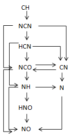 The scheme of reactions for NO formation via the prompt-NO mechanism